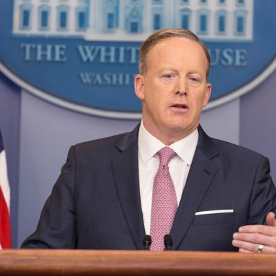 White House Press Secretary Sean Spicer's Twitter profile picture, as of March 2017. "PressSec" is the official Twitter account for the White House Press Secretary.